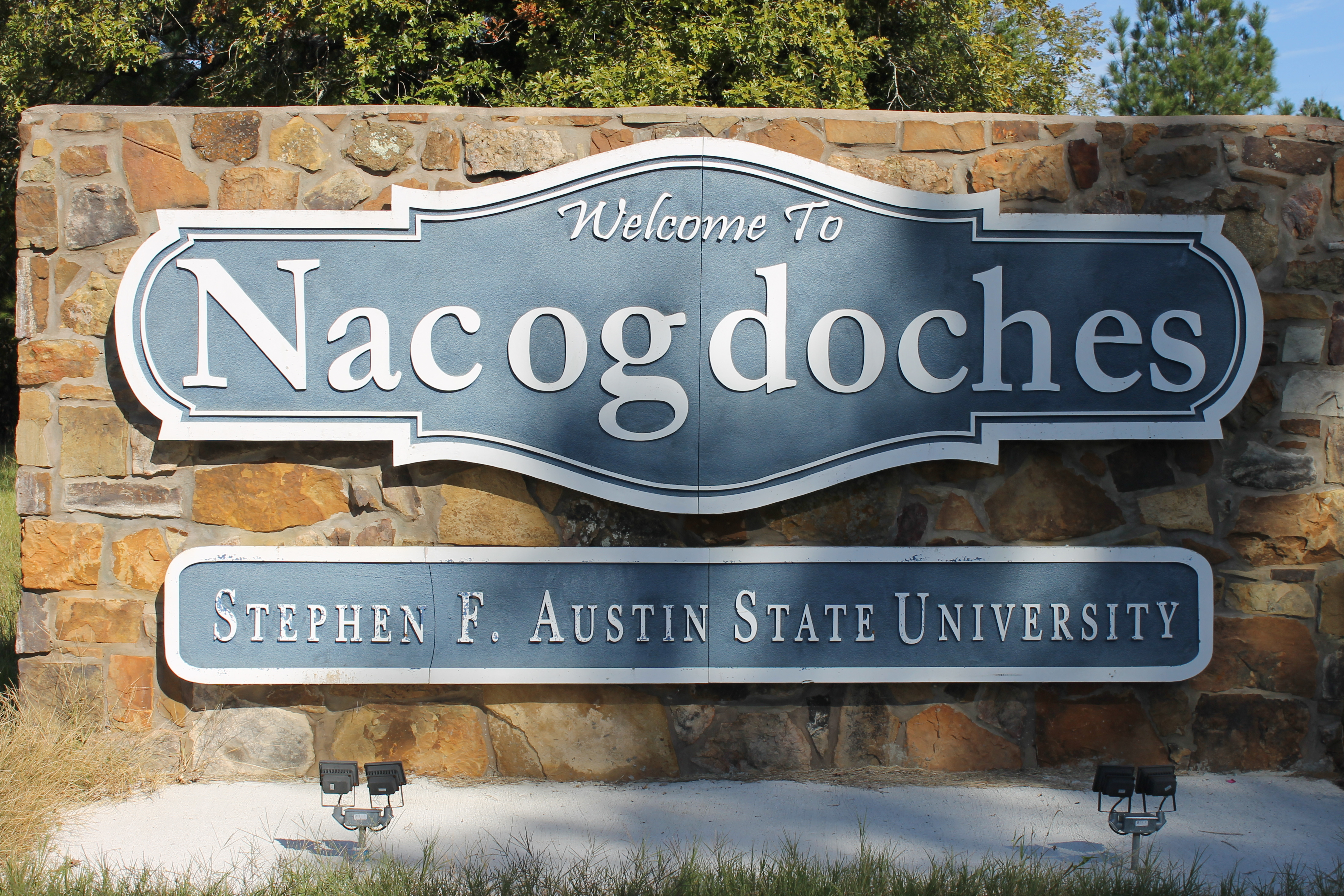 Nacogdoches, TX, entrance sign